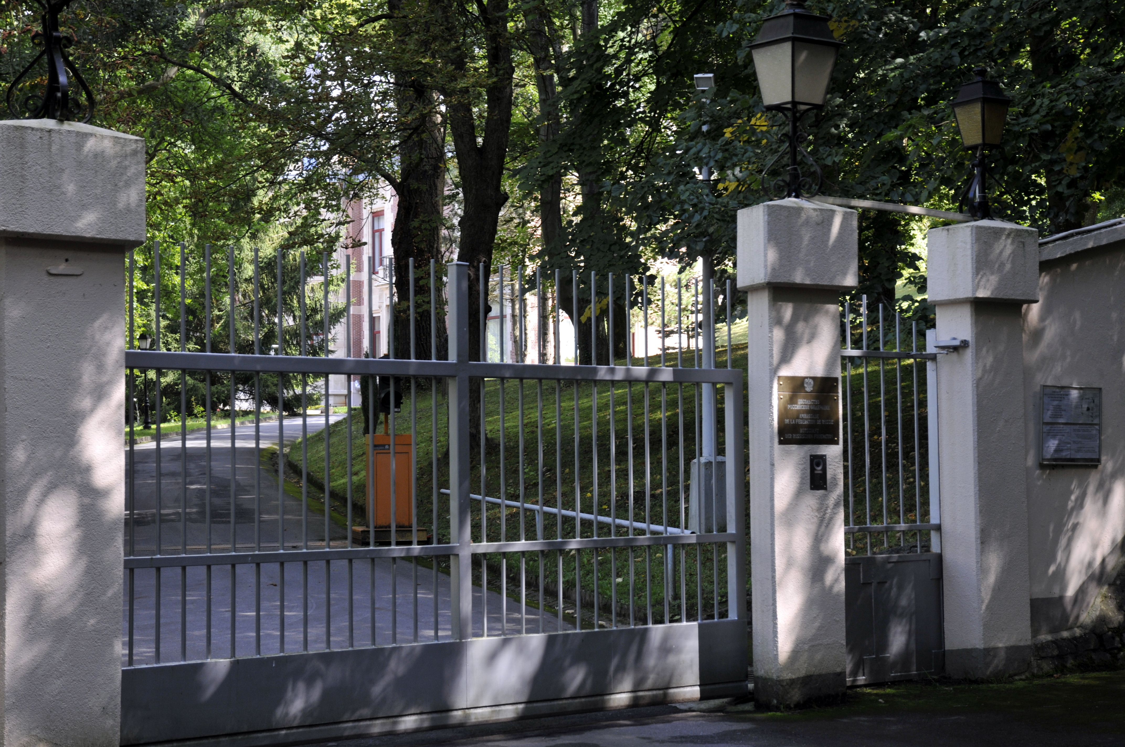 Through the gate, the Russian Embassy in Luxembourg